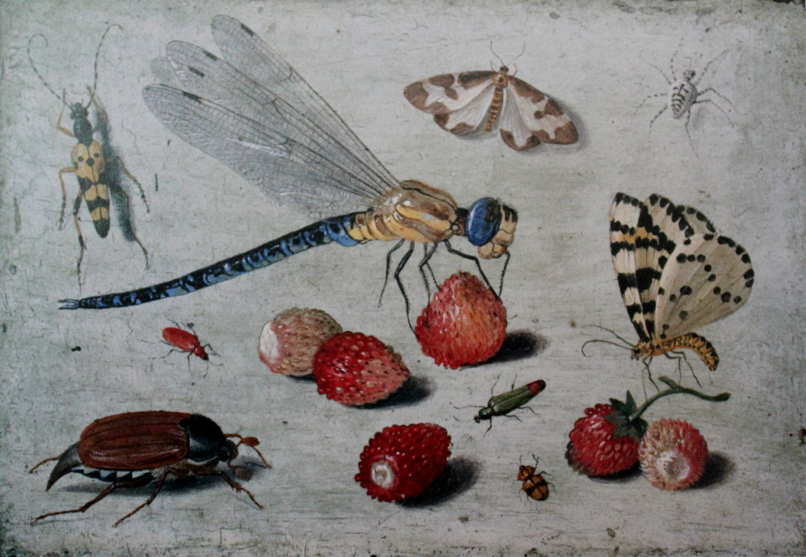 A Dragon-fly, Two Moths, a Spider and Some Beetles, With Wild Strawberries. The insects include Wasp beetle, top left; clouded border moth, top right; migrant hawker dragonfly and cardinal beetle, centre left; magpie moth, centre right; cockchafer, lower left. Oil on copper; 9 x 13 cm. Ashmolean Museum, Oxford; Bequeathed by Daisy Linda Ward, 1939